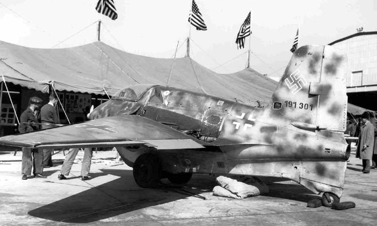 Wright Field October 14, 1945.